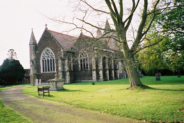 Church of England parish church of St Michael and all Angels, Warfield, Berkshire: view from the northeast